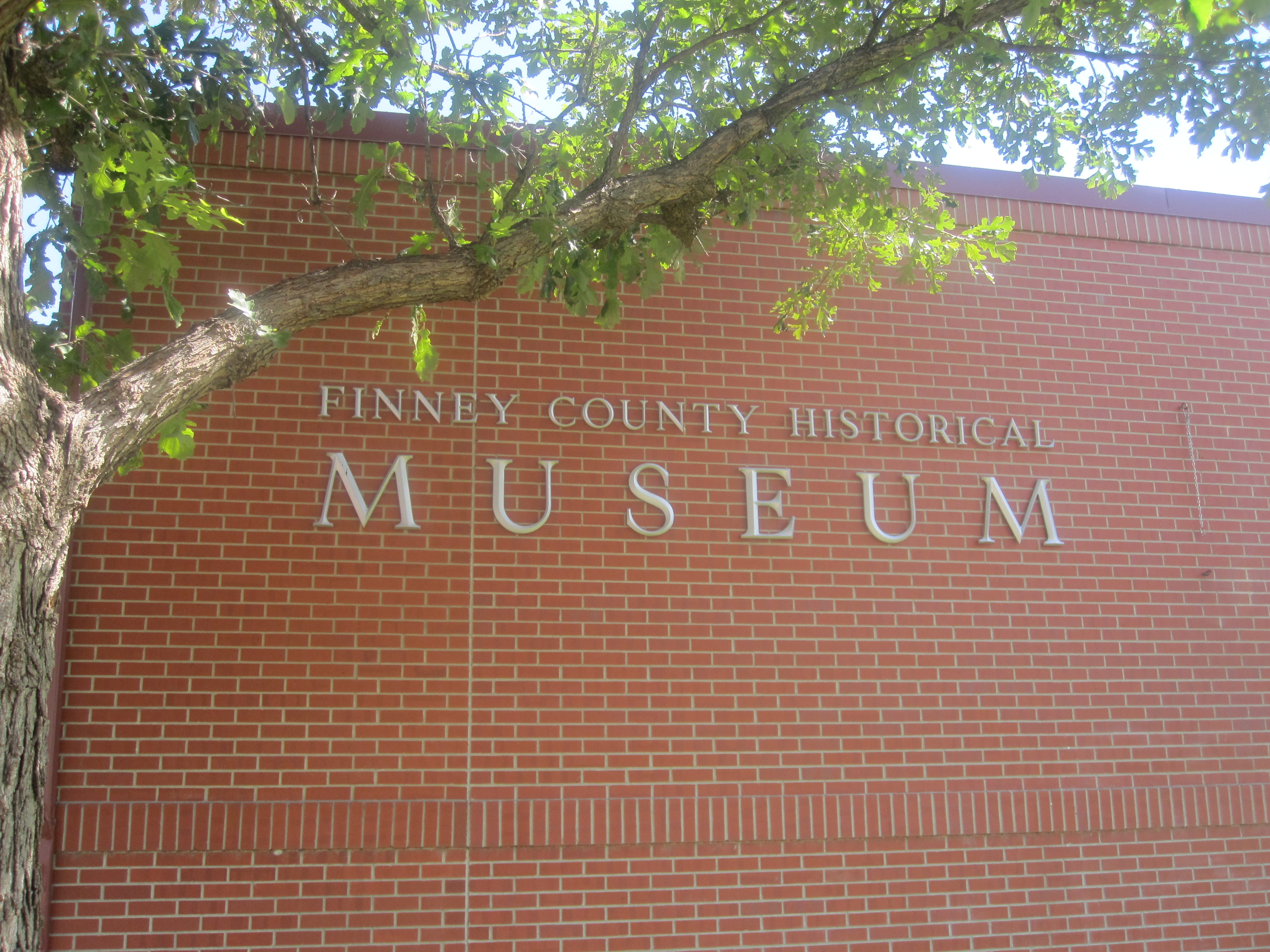 I took photo with Canon camera in Garden City, KS.